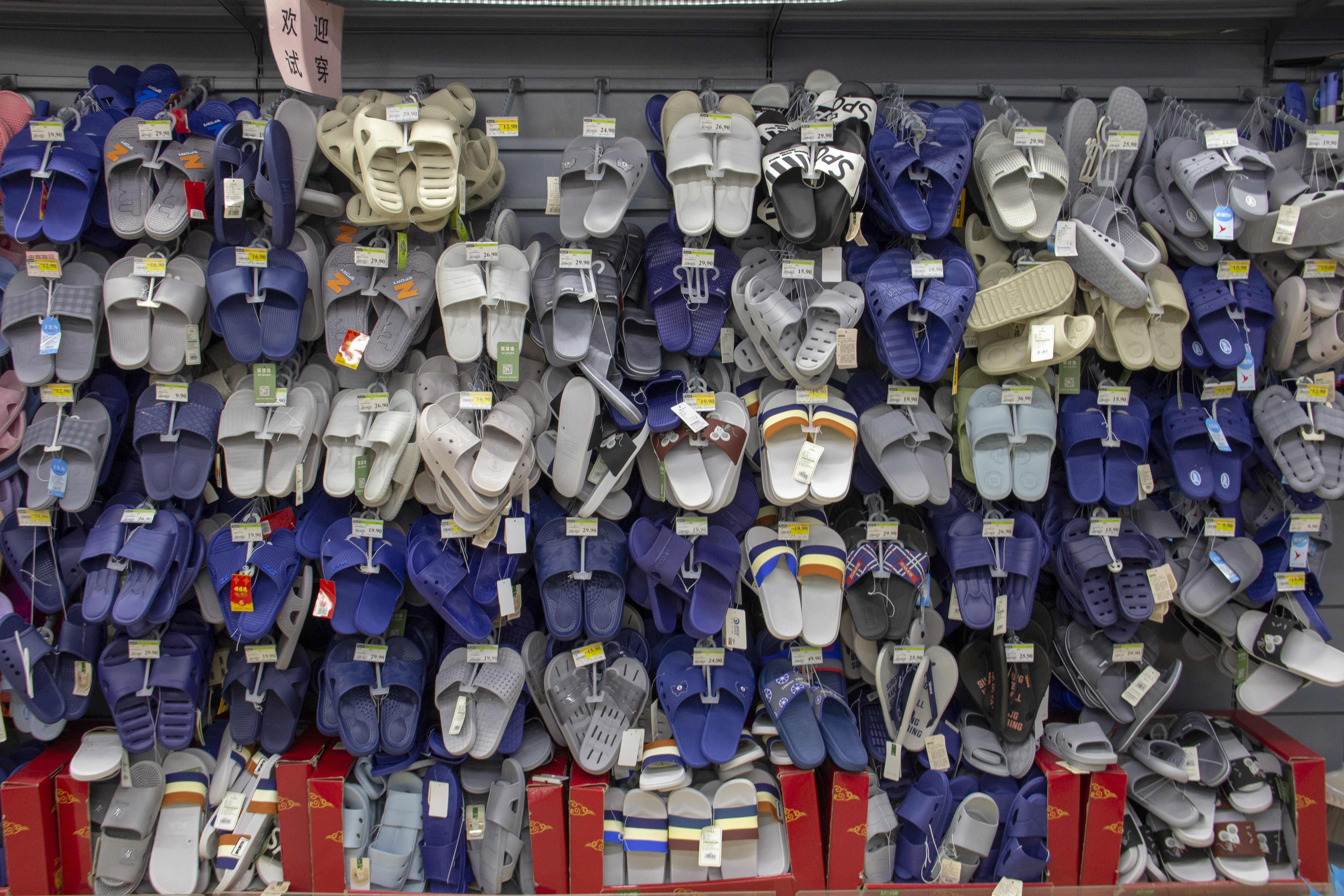 slippers on a shelf